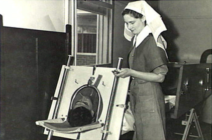 A patient at the 110th Australian Military Hospital receiving treatment in an iron lung, 1943. Comment : This is now the Hollywood Private Hospital in Nedlands, Perth, Western Australia.